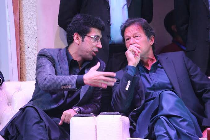 Discussion